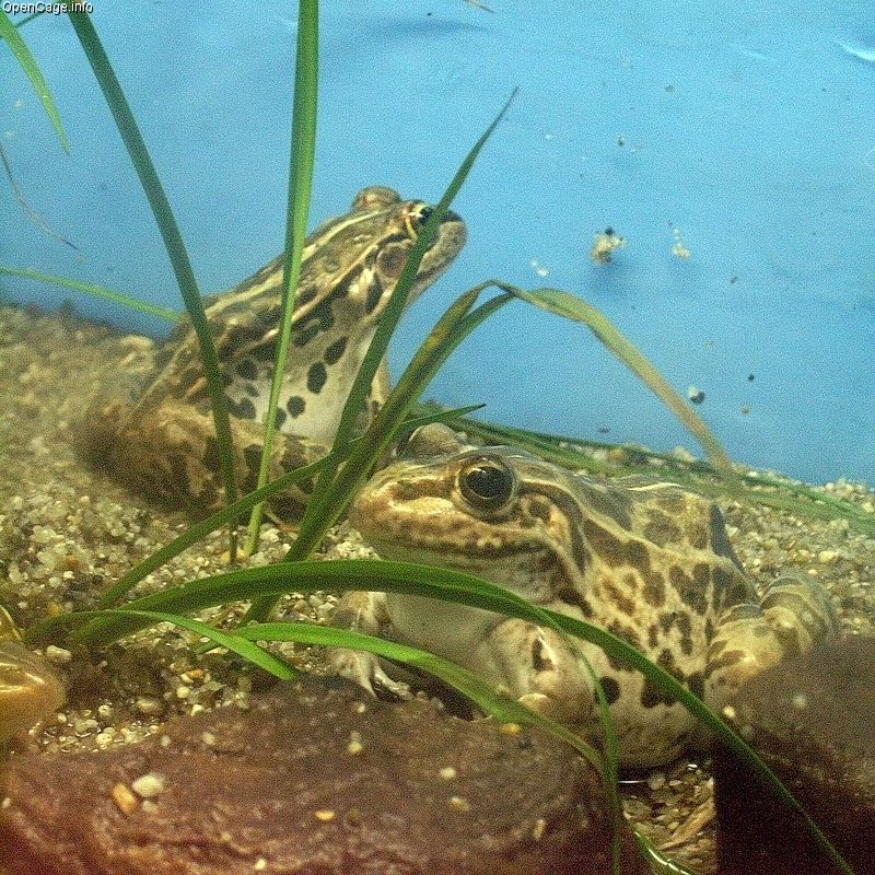 トノサマガエル（Rana nigromaculata Black-spotted Pond Frog） Location 姫路市水族館, Himeji Aquarium, Japan Copyright OpenCage